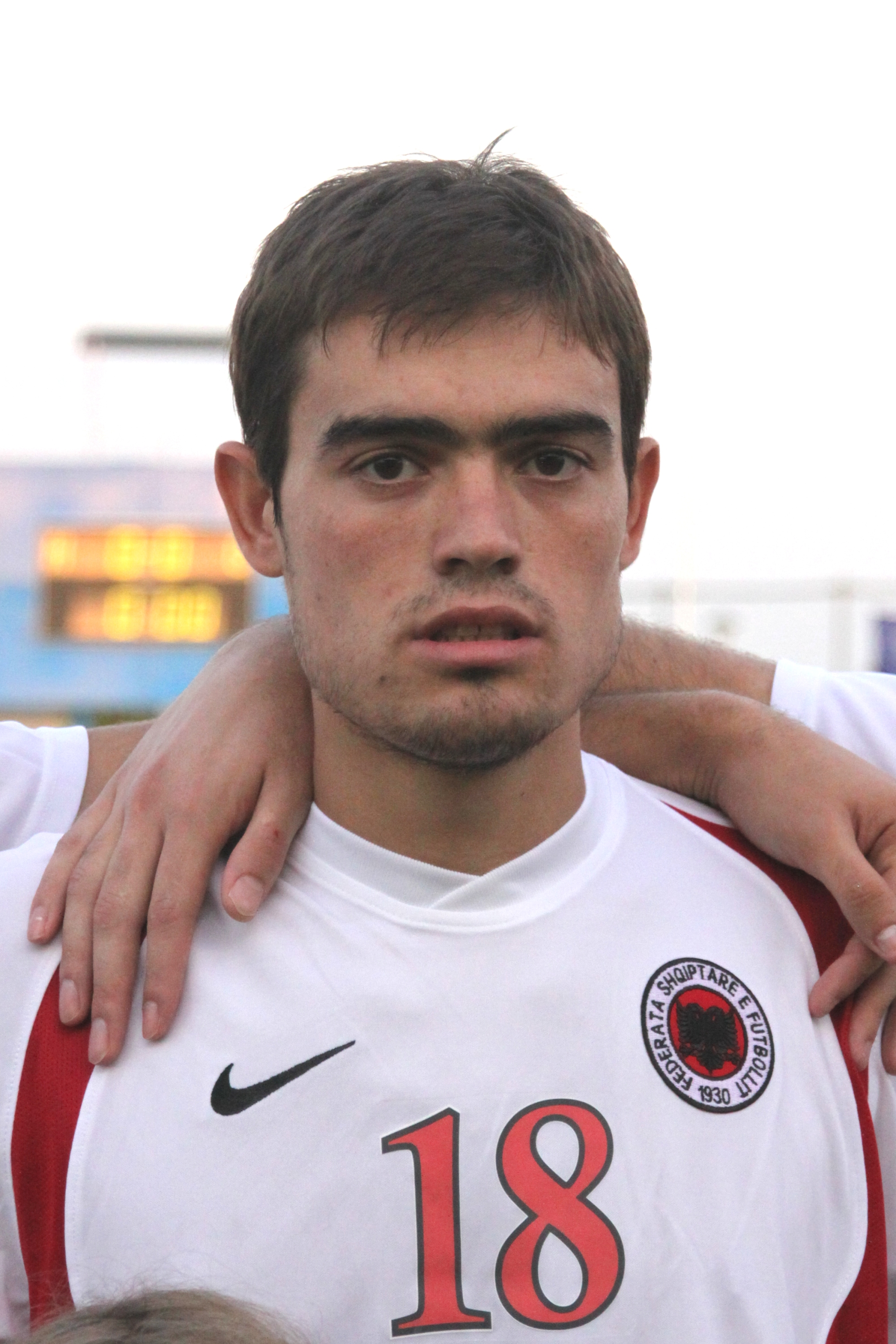 Orgest Gava (KS Elbasani) - Albania national under-21 football team (1)